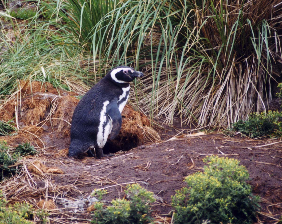 Photo of Spheniscus magellanicus (Magellanic penguin) next to burrow on Carcass Island, Falkland Islands